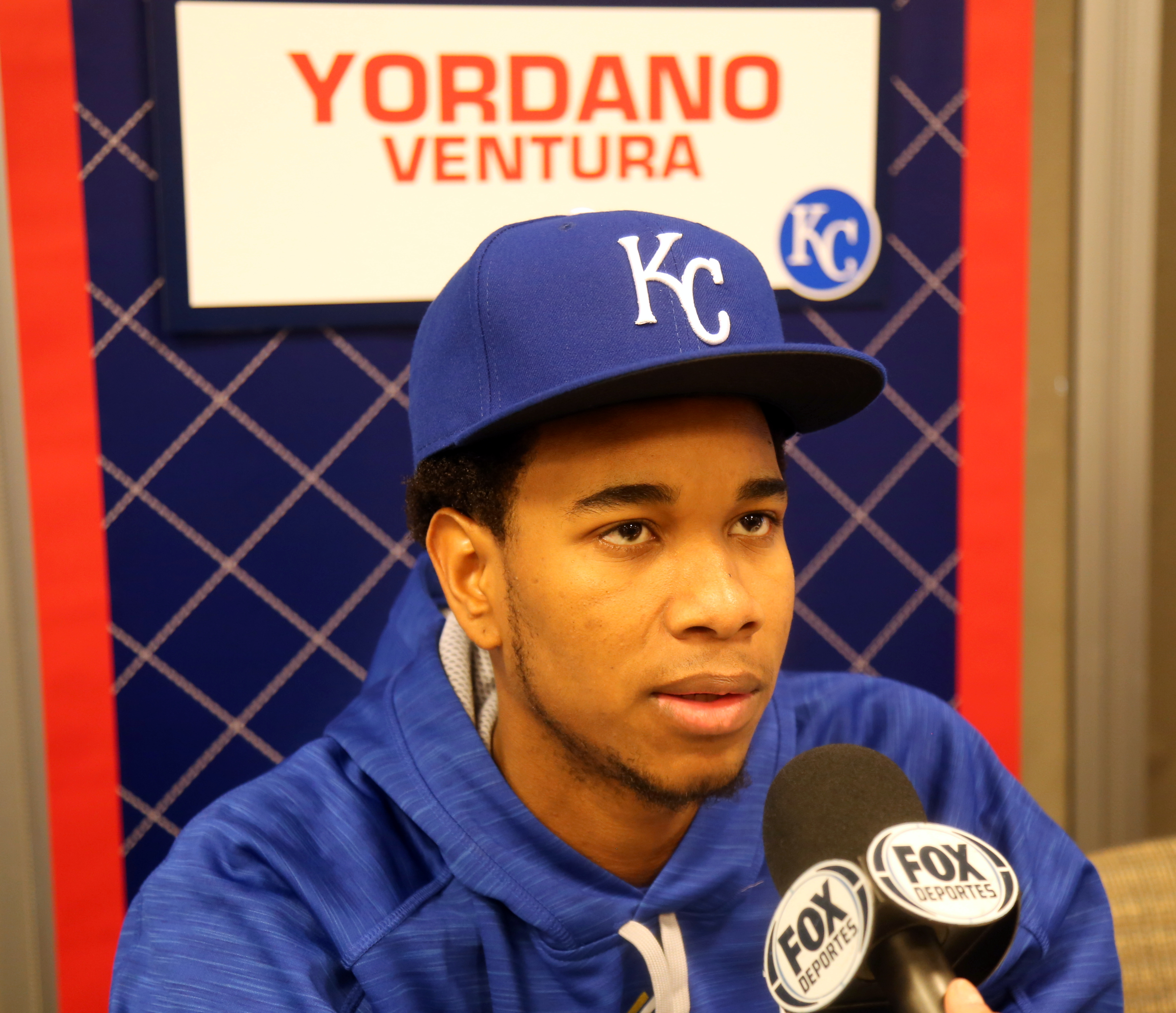 Yordano Ventura talks to reporters on #WSMediaDay.